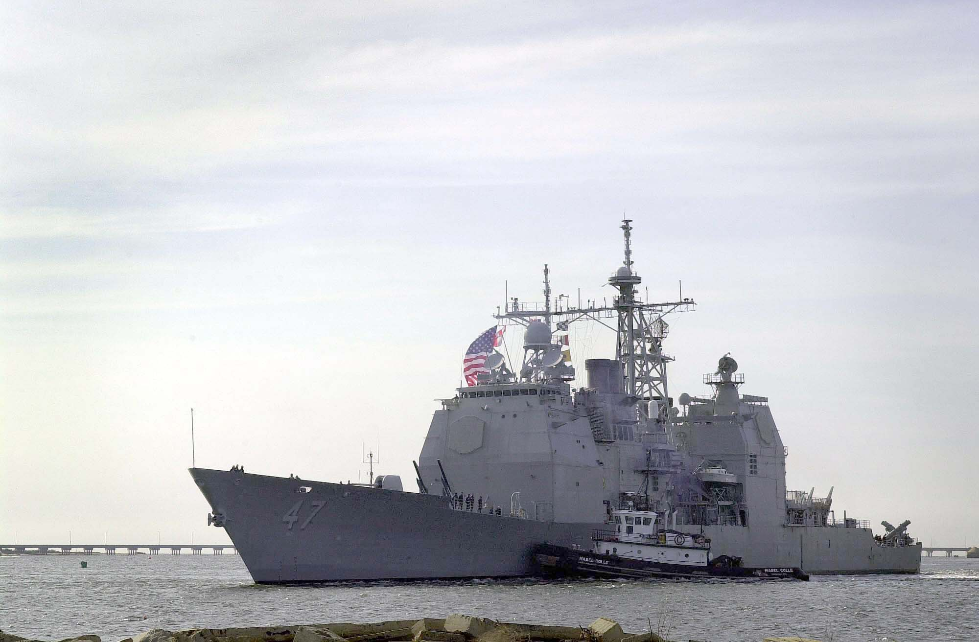 Pascagoula, Miss. (Dec. 12, 2000) - The guided missile cruiser USS Ticonderoga (CG 47) gets underway from Ingalls Shipyard in Pascagoula, Miss., for a scheduled deployment. U.S. Navy photo by Photographer's Mate 2nd Class J.B. Keefer. (RELEASED)